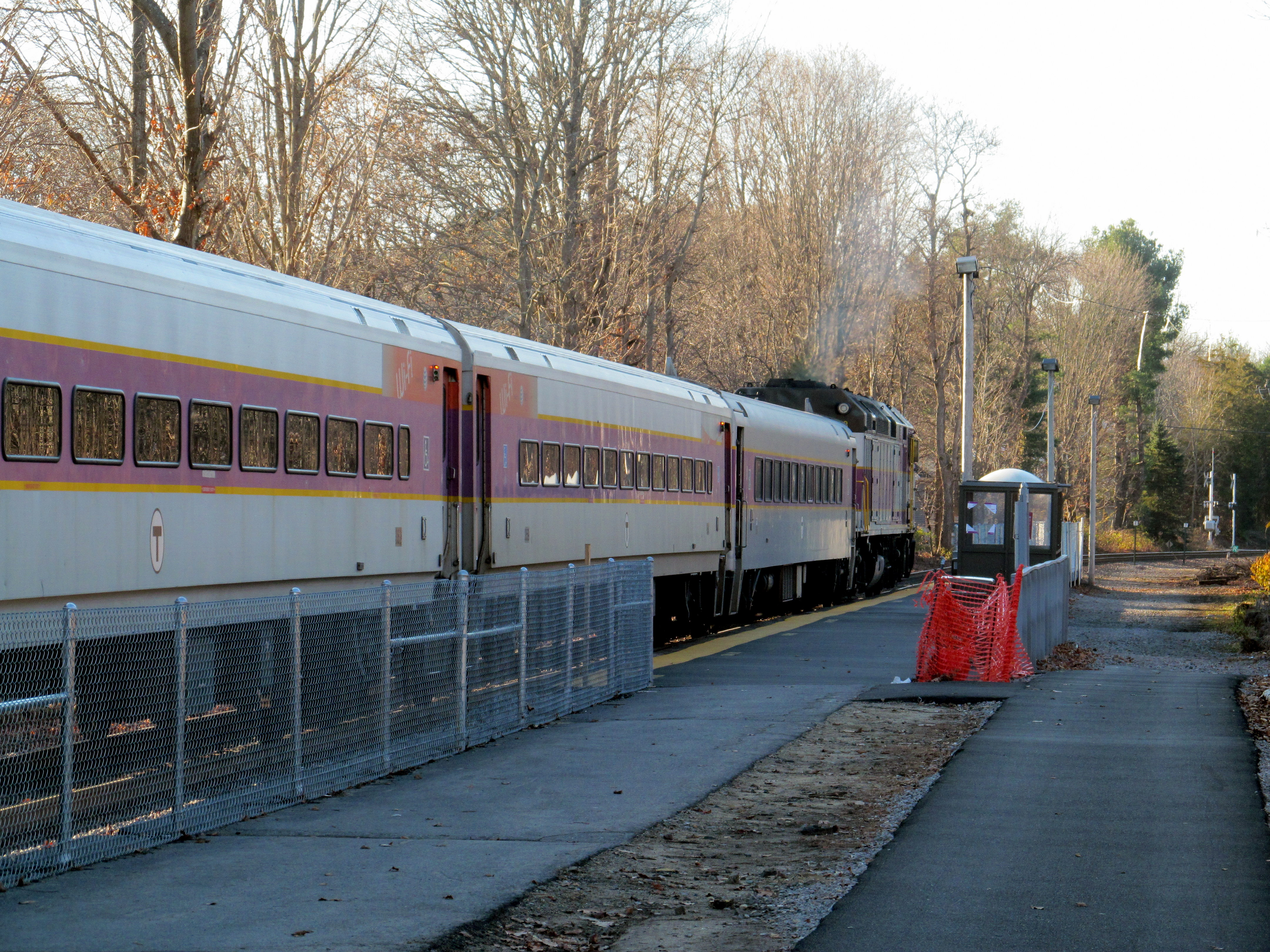 A train waits at the temporary platform at South Acton, located outbound of the former platform.